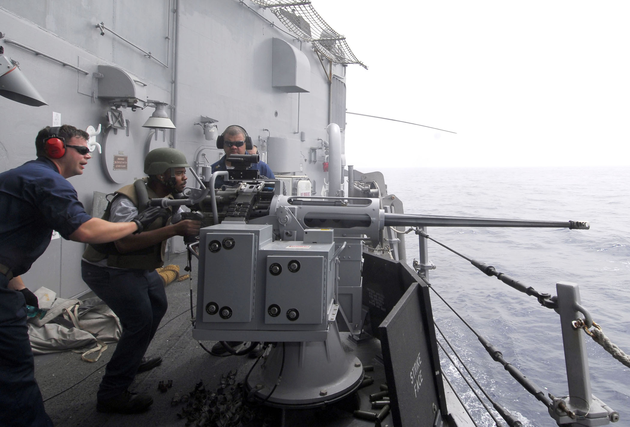 MEDITERRANEAN SEA (June 14, 2010) Chief Gunner's Mate Sean Holmes, from Houston, Texas, left, and Gunner's Mate 1st Class Bruce Smith, from Greensboro, N.C., far right, instructs Culinary Specialist Seaman Phillip Stidum, from Memphis, Tenn., on the MK-38 25mm machine gun during a weapons exercise aboard the guided-missile frigate USS Taylor (FFG 50). Taylor is participating in Operation Active Endeavor in the Mediterranean Sea. (U.S. Navy photo by Mass Communication Specialist 1st Class Edward Kessler/Released)